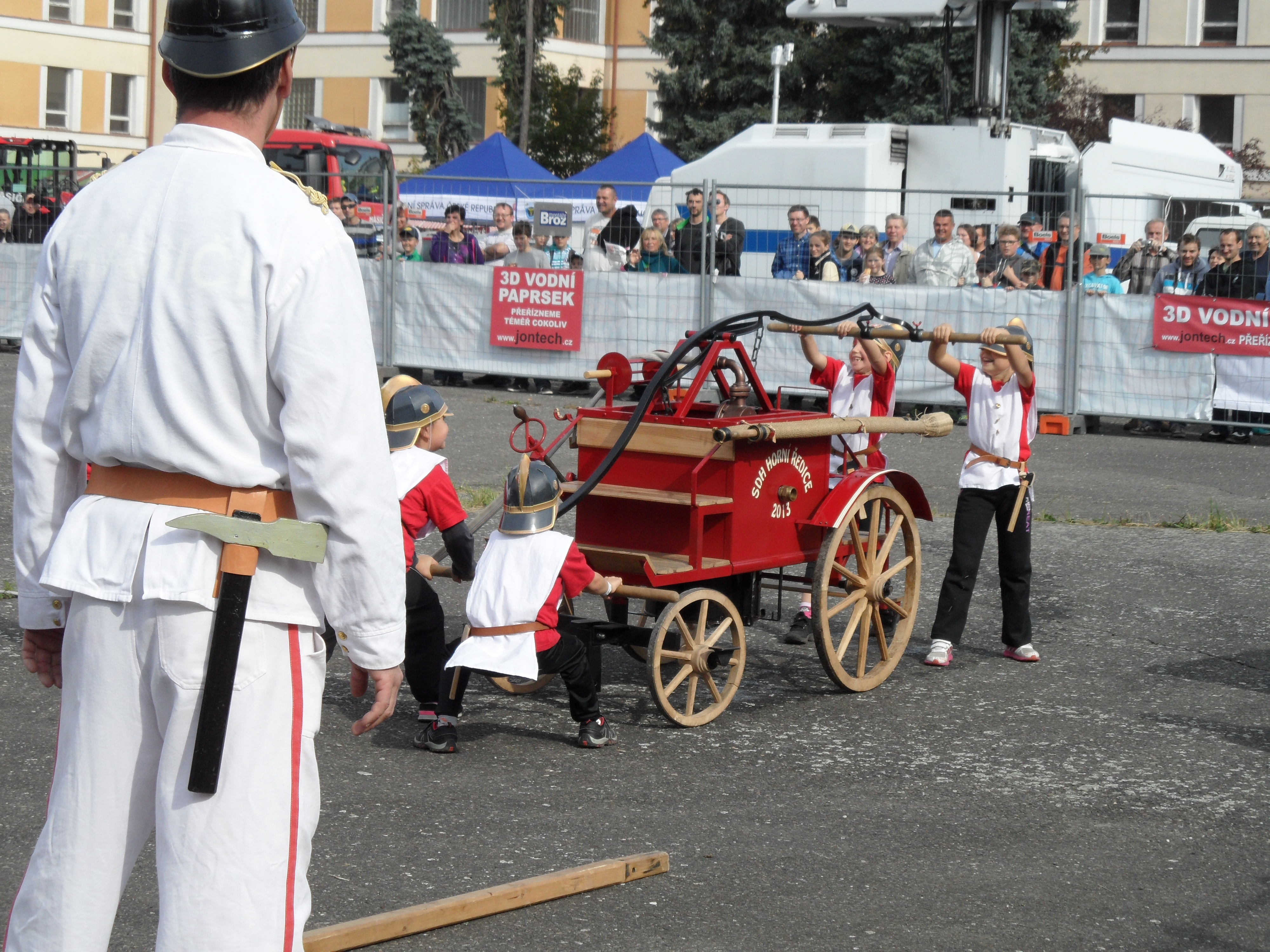 Retro City. Saturday: Main Programme A02. Childrens’ Fire Fighers: Pumping. Pardubice, Pardubice District, the Czech Republic.